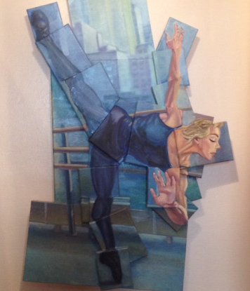 Kat Wildish dancing ballet. Painting by Scott Rose.